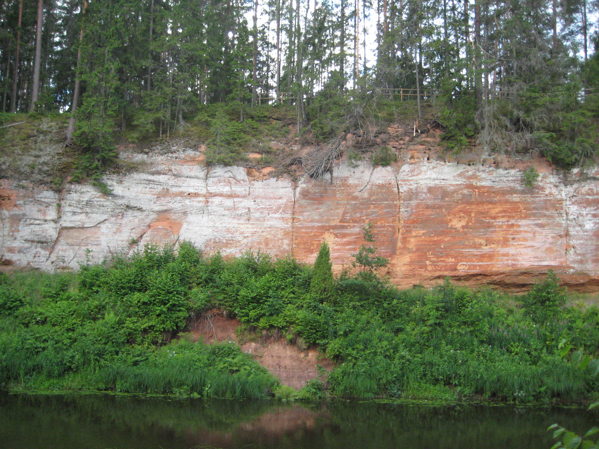 Skaņais kalns cliff in Latvia (Mazsalaca municipality, left bank of Salaca river, below Mazsalaca town) N 57°52'24,8" E 24°59'46,3"